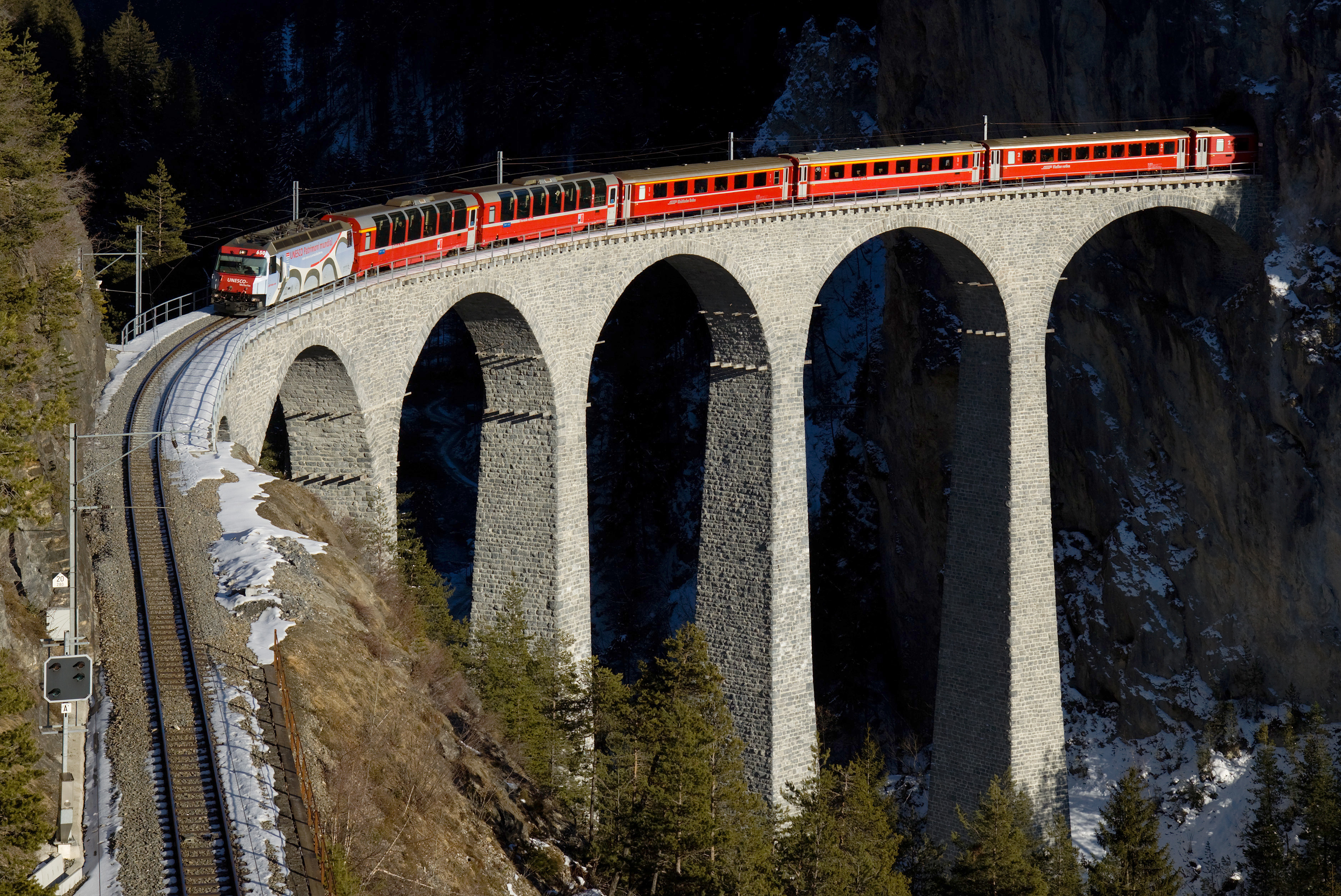 RhB Ge 4/4 III with a Regio Express train from St. Moritz to Chur on the Landwasser viaduct. The locomotive carries advertisement for the UNESCO world heritage Albula and Bernina lines. The stylized viaduct pictured on the locomotive is the very same that it is currently passing over! Also note the two first panoramic coaches. This type of panoramic coach is normally used on the Bernina line, but because there's less traffic on that line during winter they use the coaches on other parts of the network.